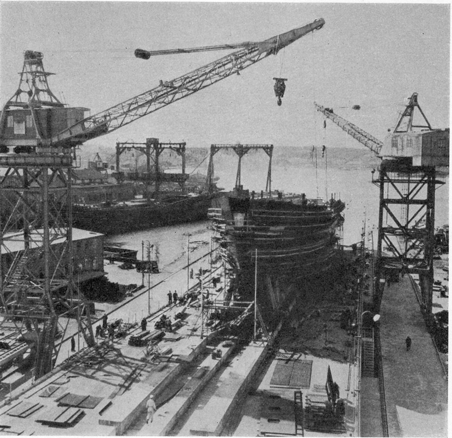 Swedish shipyard Oskarshamn.